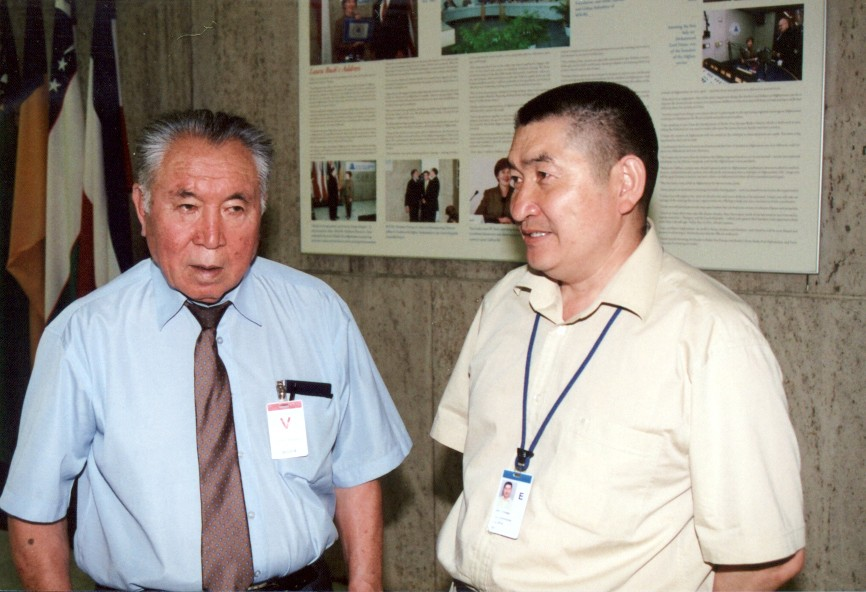 Azamat Altay, the former broadcaster and Director of the Kyrgyz Service of RFE/RL, and current Director of the Service, Dr. Tyntchtykbek Tchoroev, during the celebration of the 50th anniversary of RFE/RL. Prague, Czech Republic. 06 June 2003.